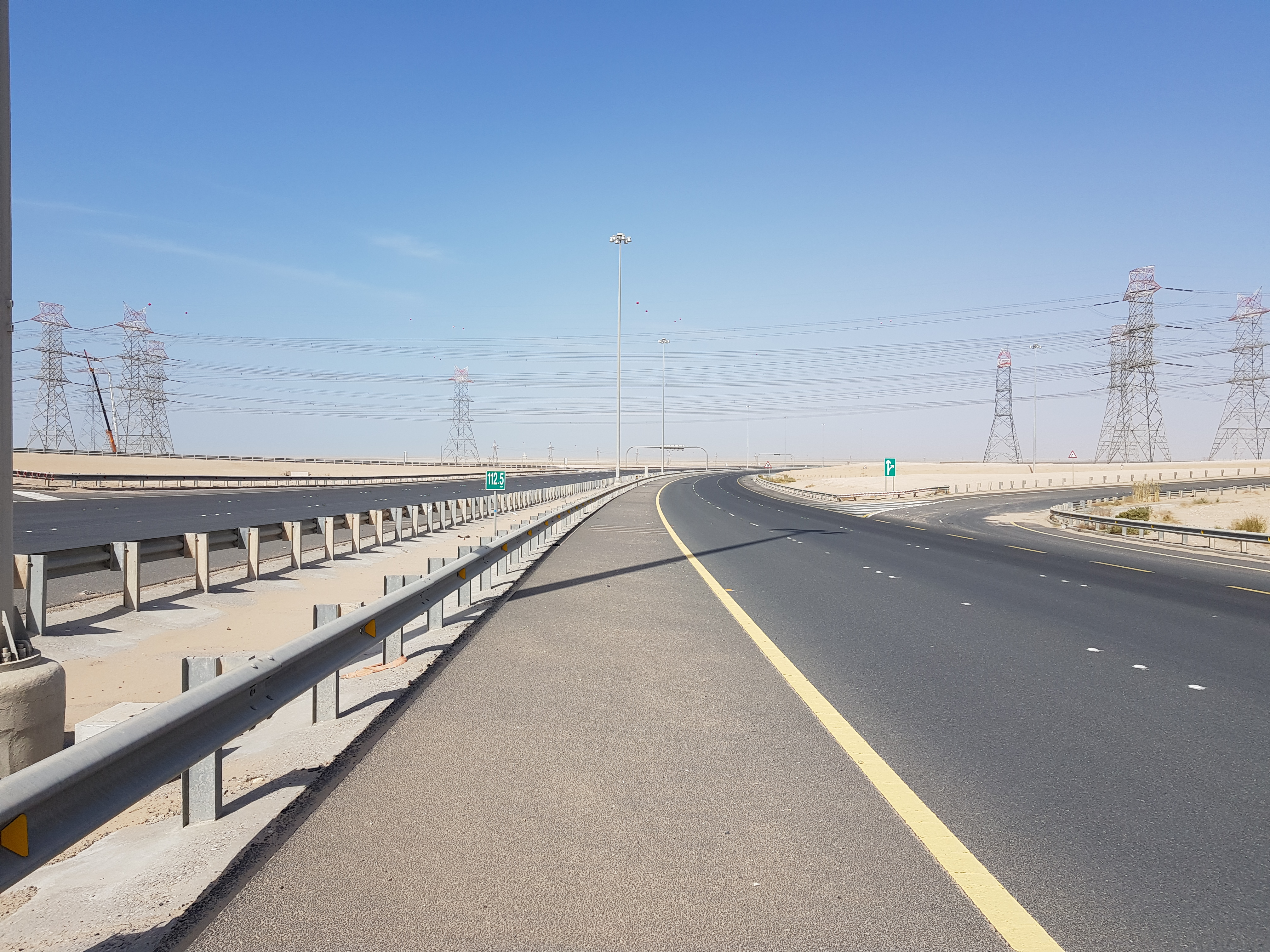 An Example of a shoulder lane commonly used in Kuwait. Image was shot in "Saad Al Abdulla Al Sabah Rd"